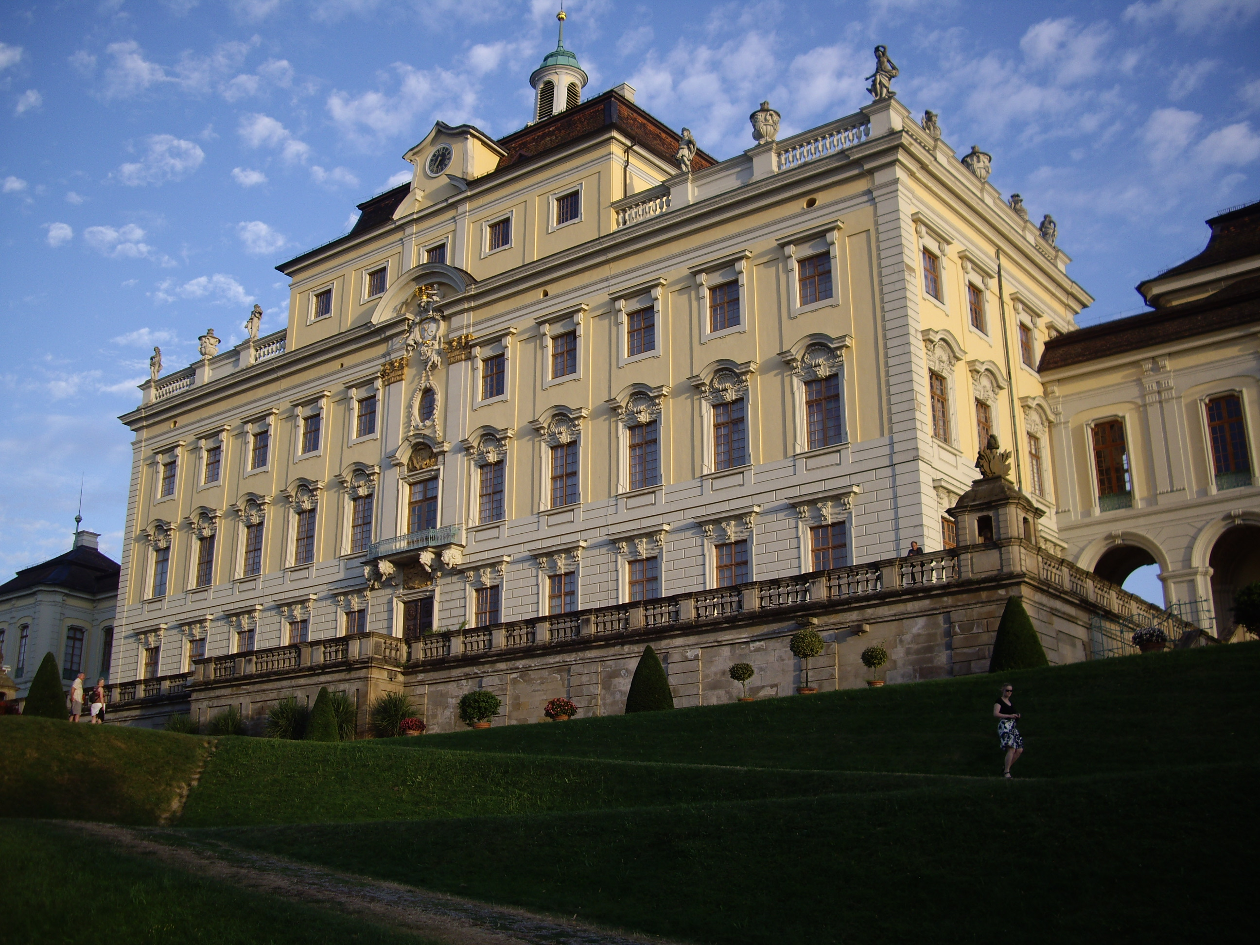 Ludwigsburg Palace